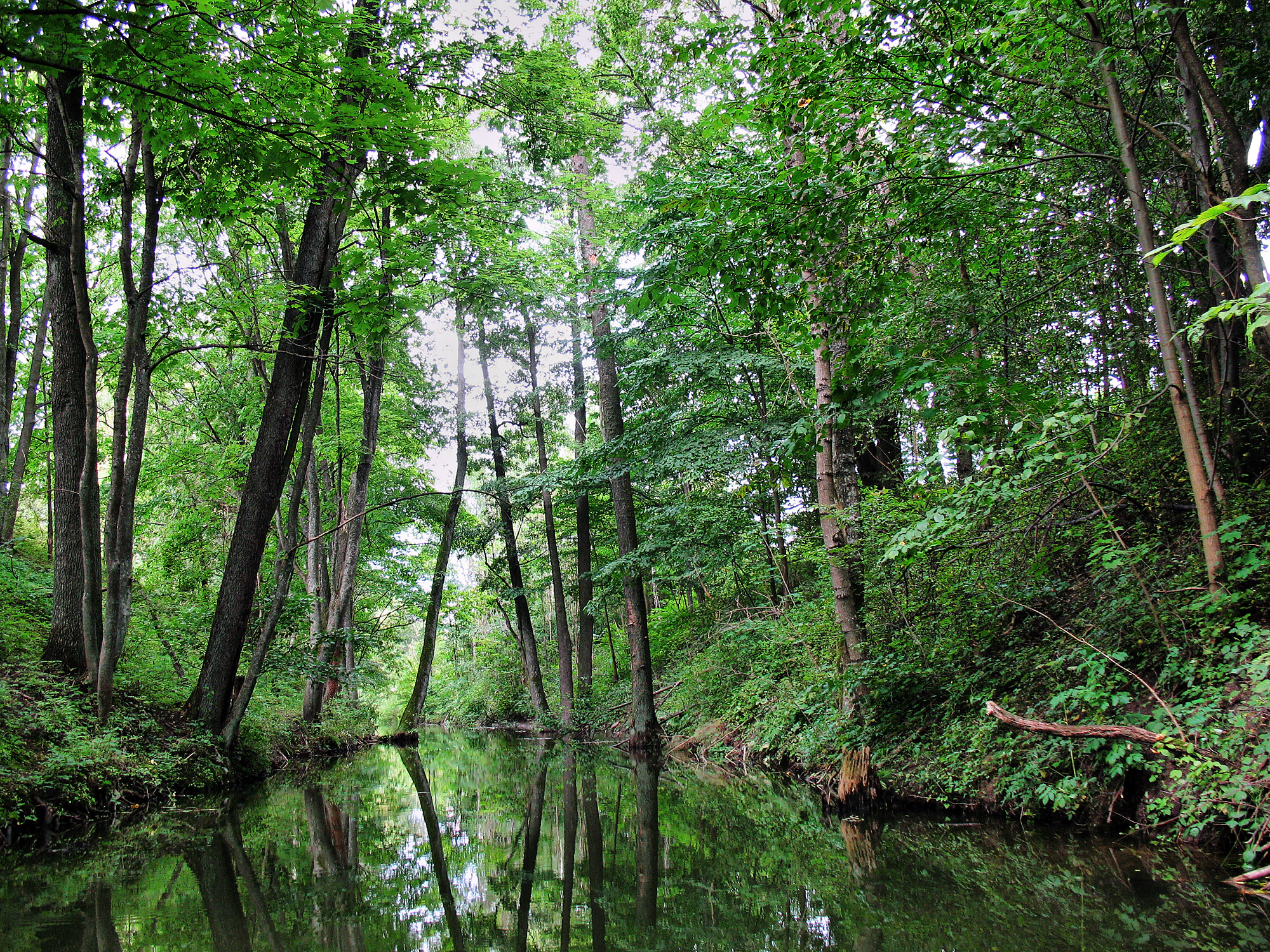 Sapina River near Kruklanki